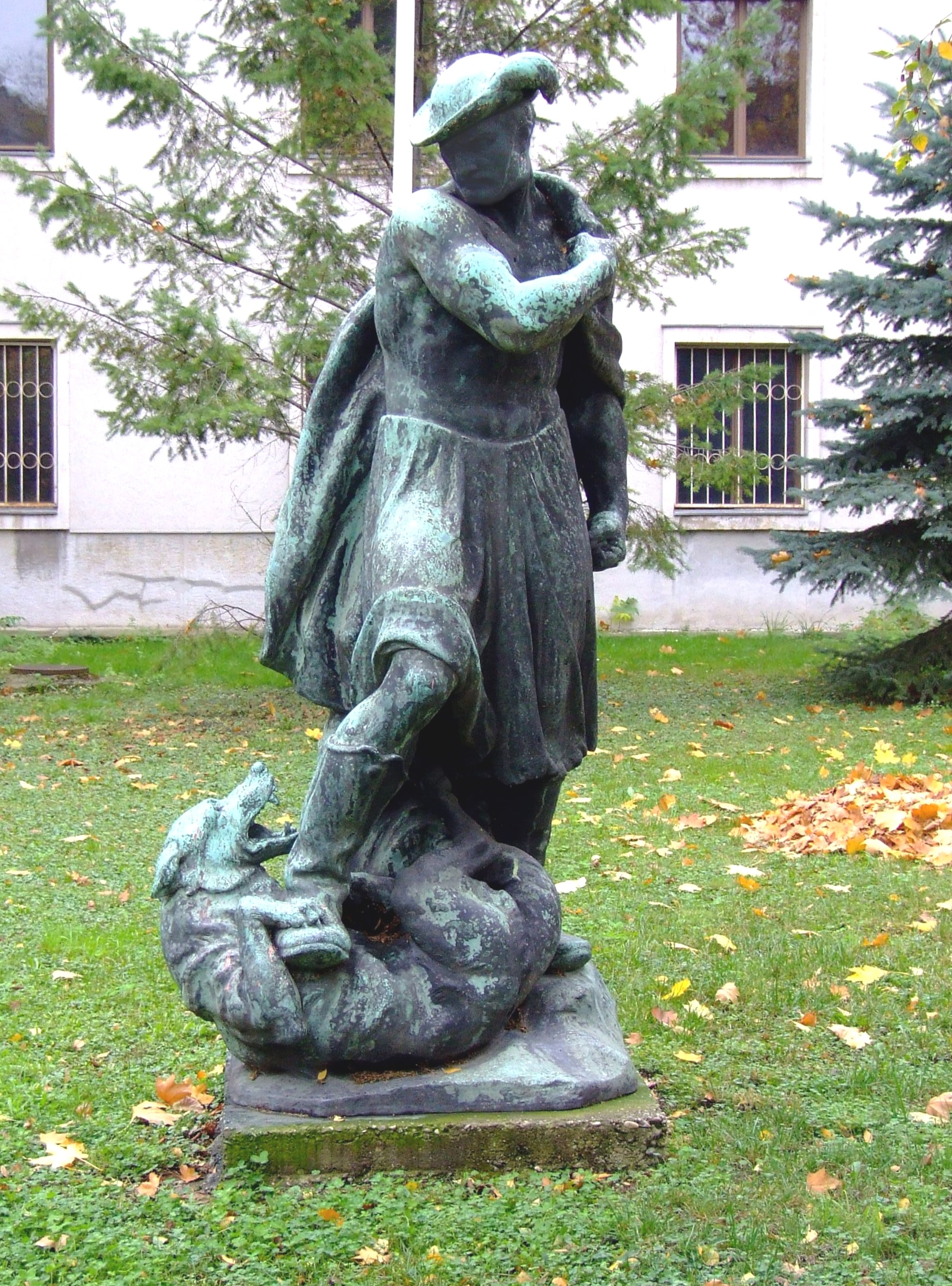 Statue of Miklós Toldi. Sculptor: János Pásztor